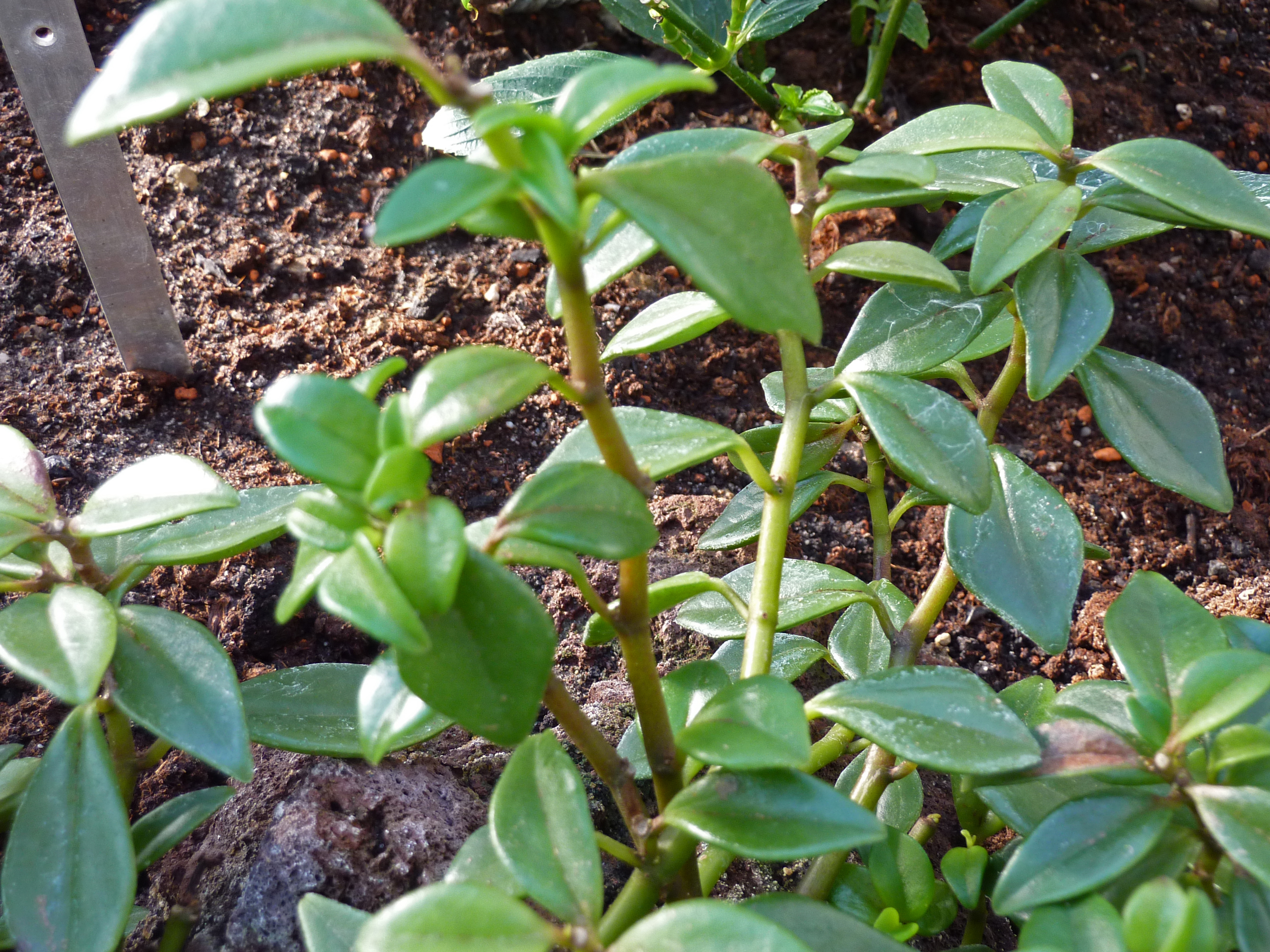 Peperomia vinasiana in the Botanical Garden, Berlin.